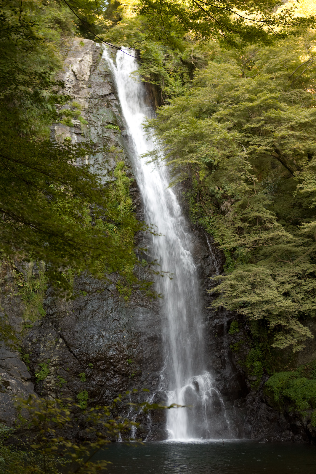 Waterfall in Mino Quasi-National Park during early autumn